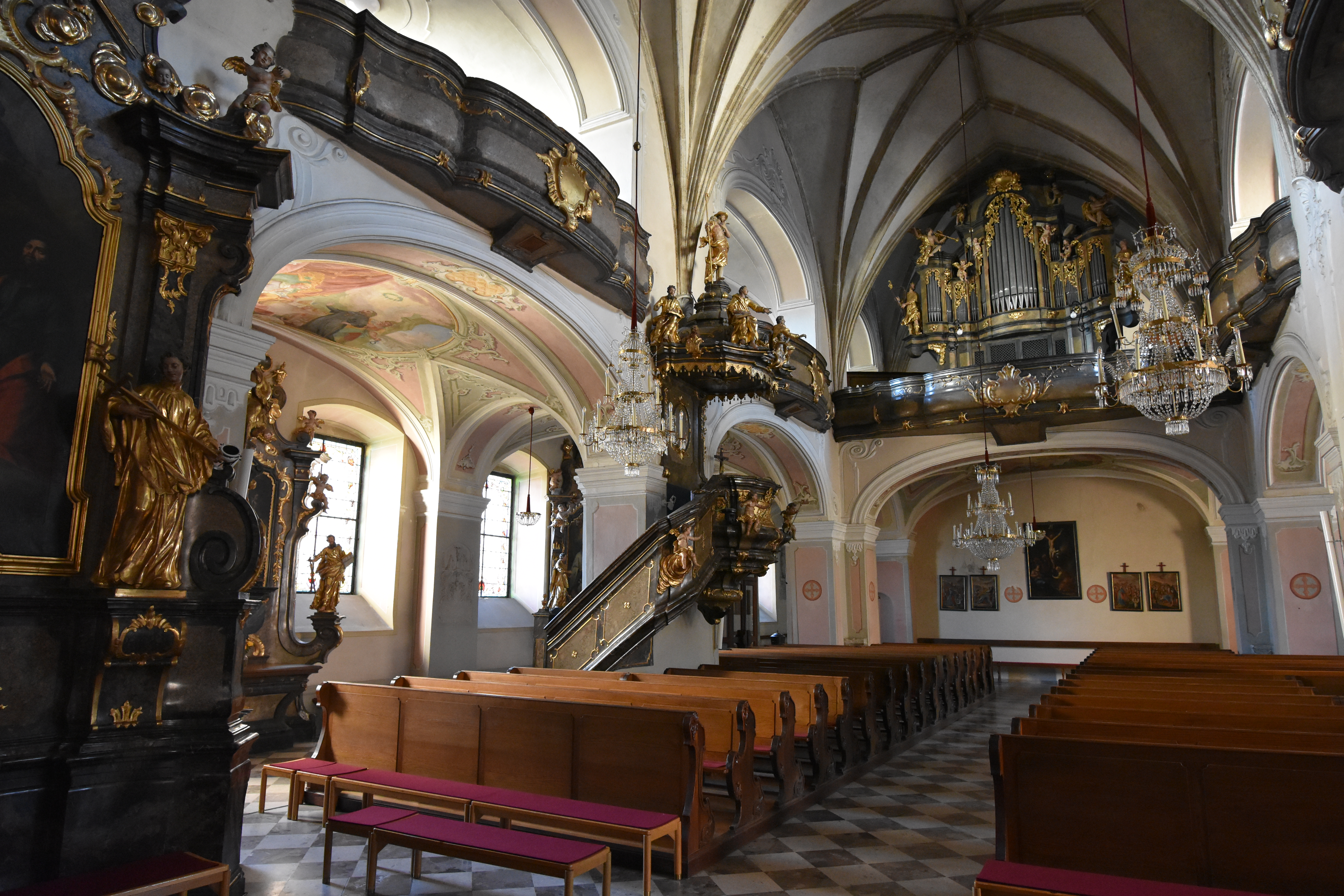 Church Stadtpfarrkirche (Hartberg) - Interior